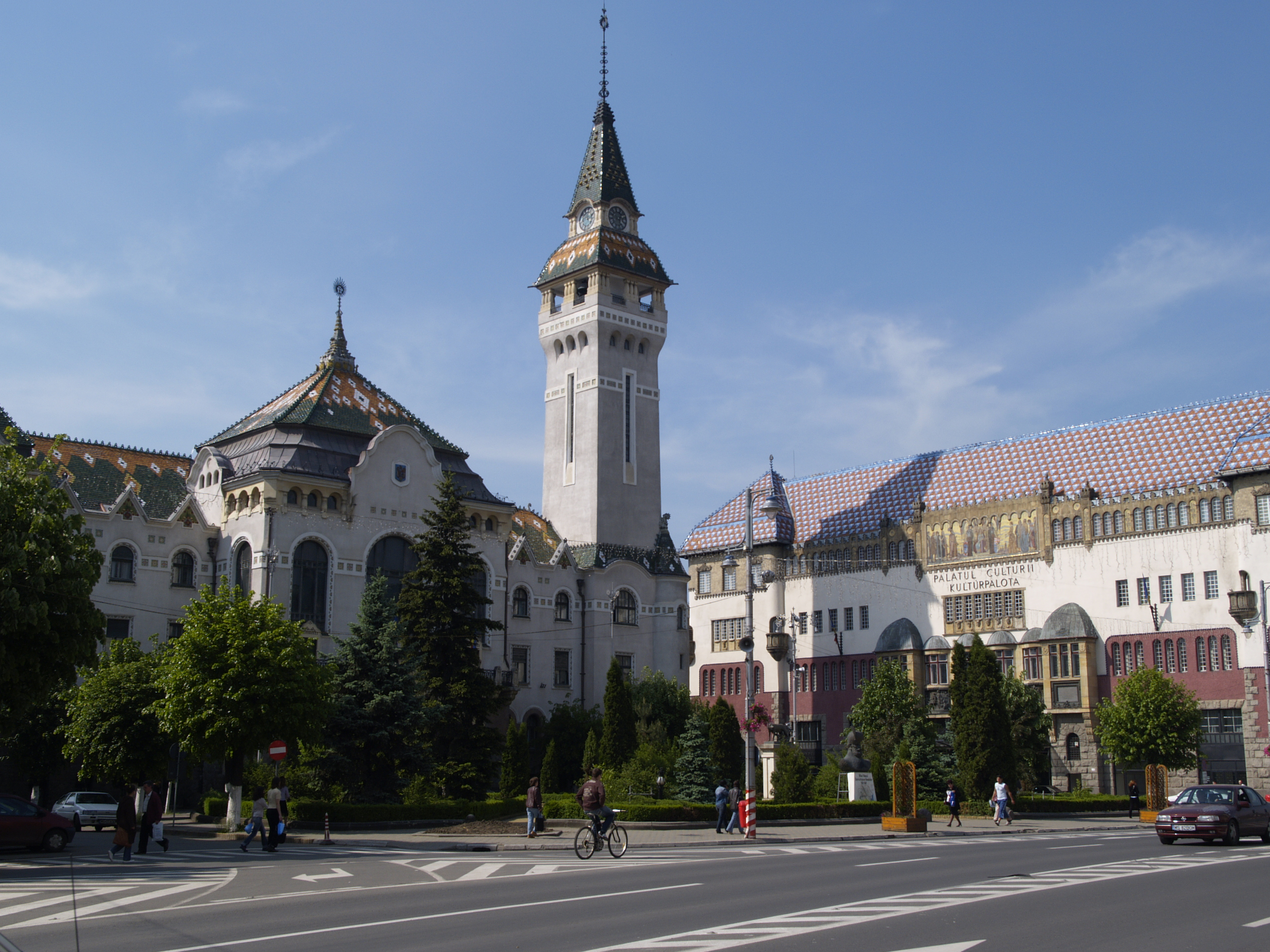 Mureş County Prefecture